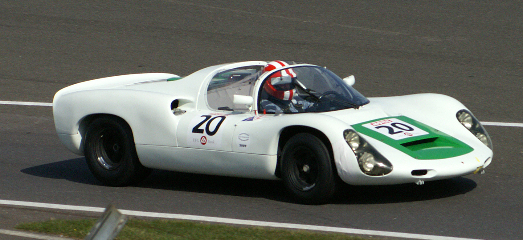 Porsche 910 at Classic Endurance Racing, Silverstone 2009. September 2009